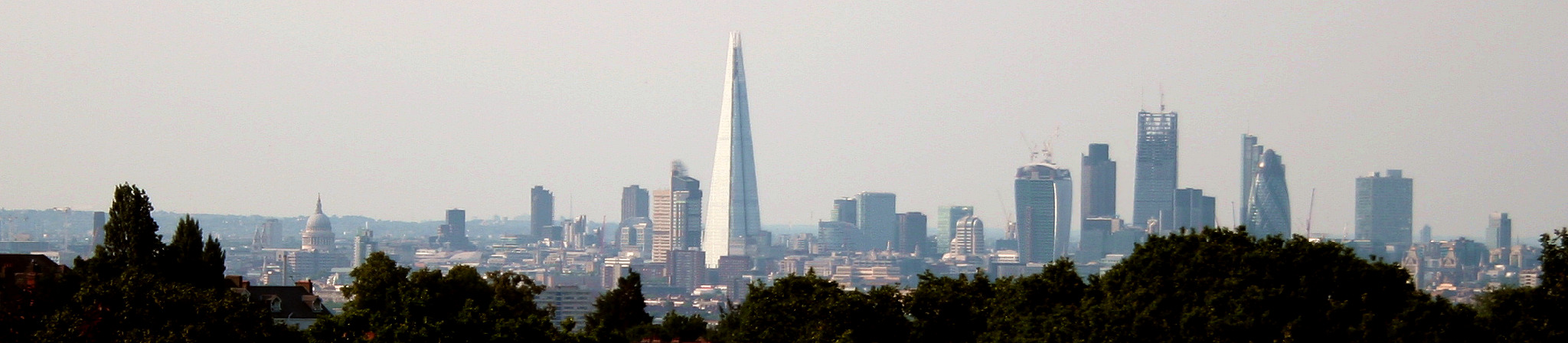 The London skyline viewed from the Horniman Museum in July 2013.